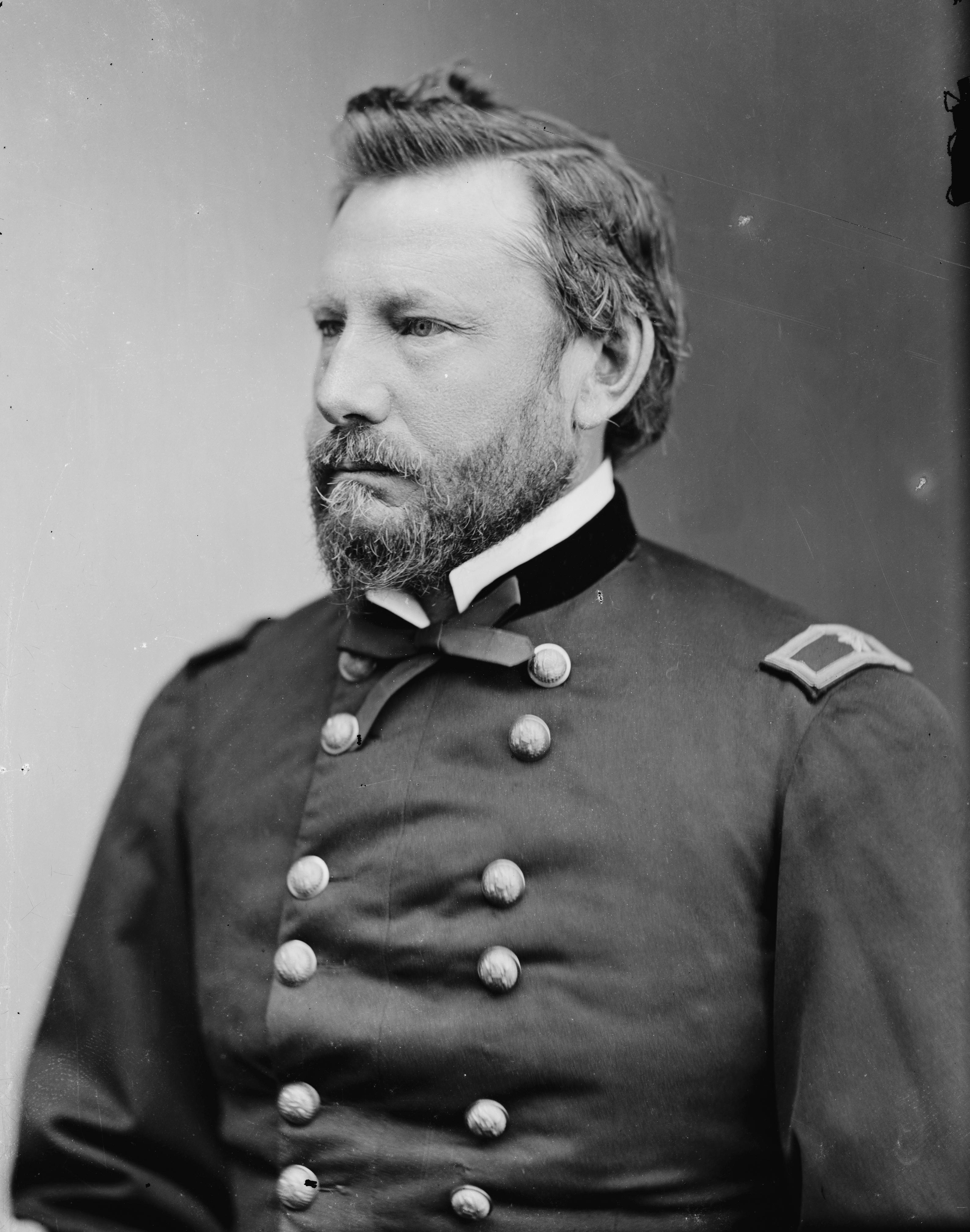 Albert J. Myer. Library of Congress description: "Gen. A. J. Meyer, U.S.A. Chief Signal Officer"